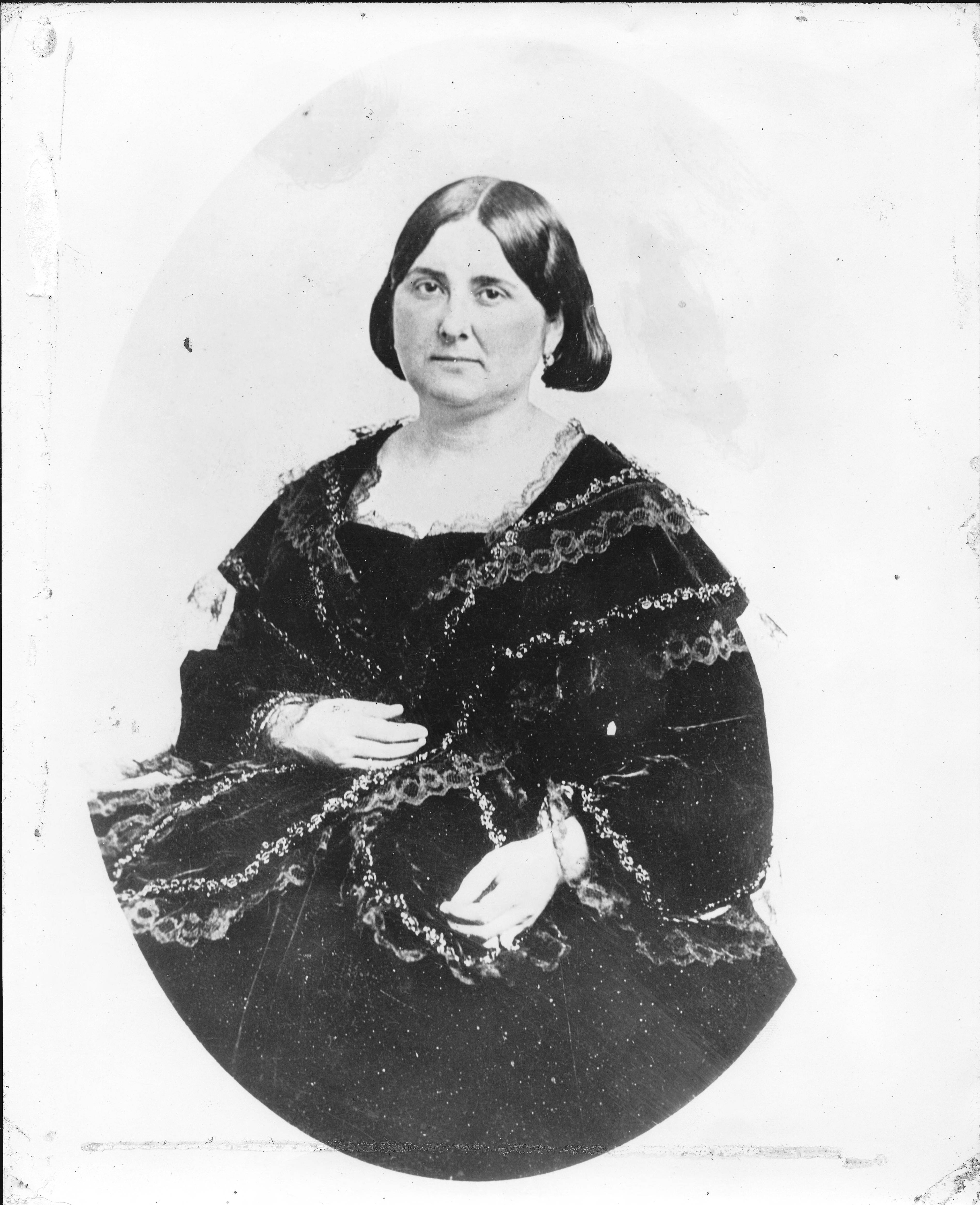 Photographic portrait of Mrs. Arcadia de Baker; previously Mrs. Abel Stearns, Arcadia Bandini, ca.1885. She can be seen from the waist up turned slightly to the left in an oval cutout. Her long dark hair is parted up the middle and pulled back to her neck. She is wearing a frilly shawl over a frilly dress with a low neckline. Her right hand is pressed to her shawl at her chest, while her left hand lays in her lap.; Mrs. Baker was the widow of Abel Stearns. She was known as the wealthiest woman in southern California. She was one of the three daughters of Juan Bandini. Josefa, Ysabel and Arcadia made the first American flag at San Diego in 1846 (later preserved in the archives in Washington, D.C.).